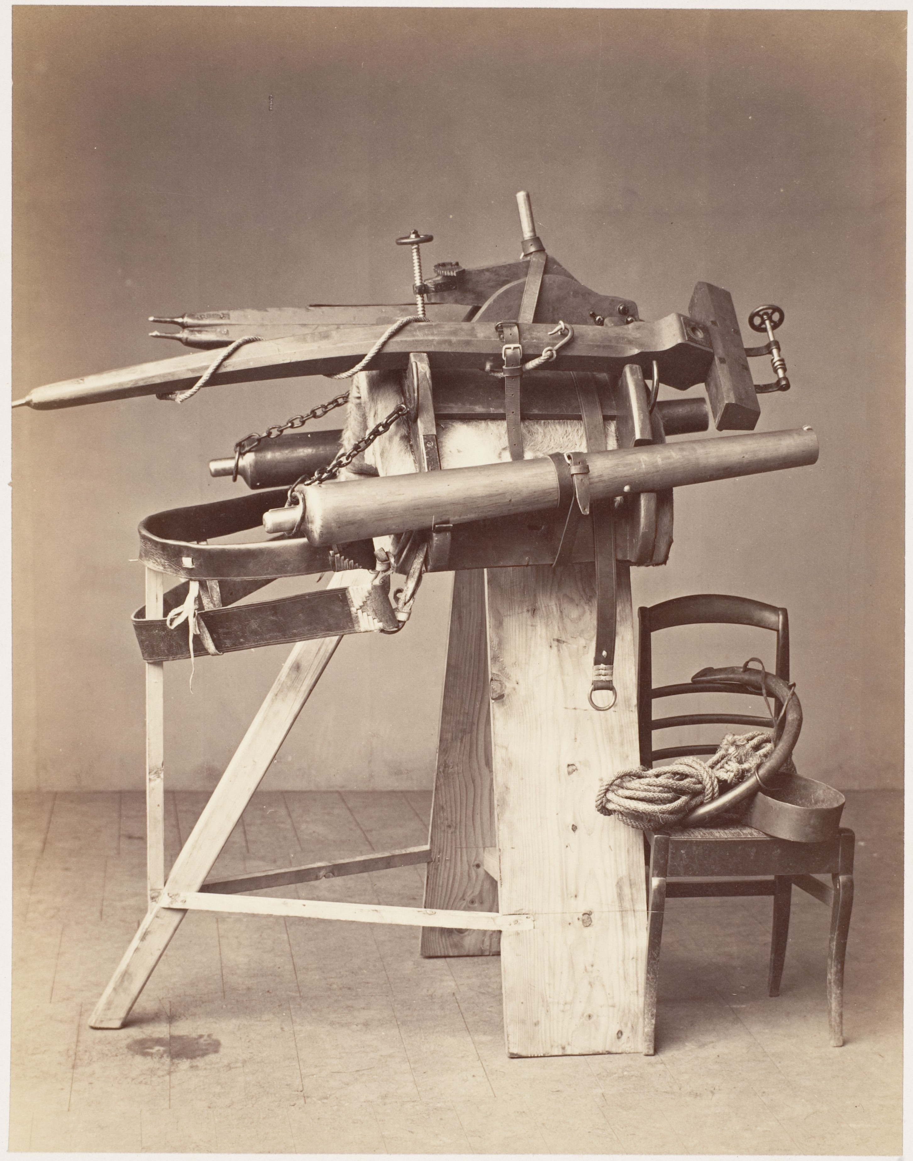 "The zamburak (Persian for "little wasp") was a saddle-mounted cannon used in cavalry warfare in Central and Southeast Asia during the eighteenth and nineteenth centuries. Deployed not for accuracy but to disrupt enemy formations, the cannons were attached to pivots and fired directly from a camel’s back with the animal on its knees. Here a rudimentary sawhorse has replaced the camel, and the threat of the weapon has been defused by the innocuous setting of a photographer’s studio." Source of description